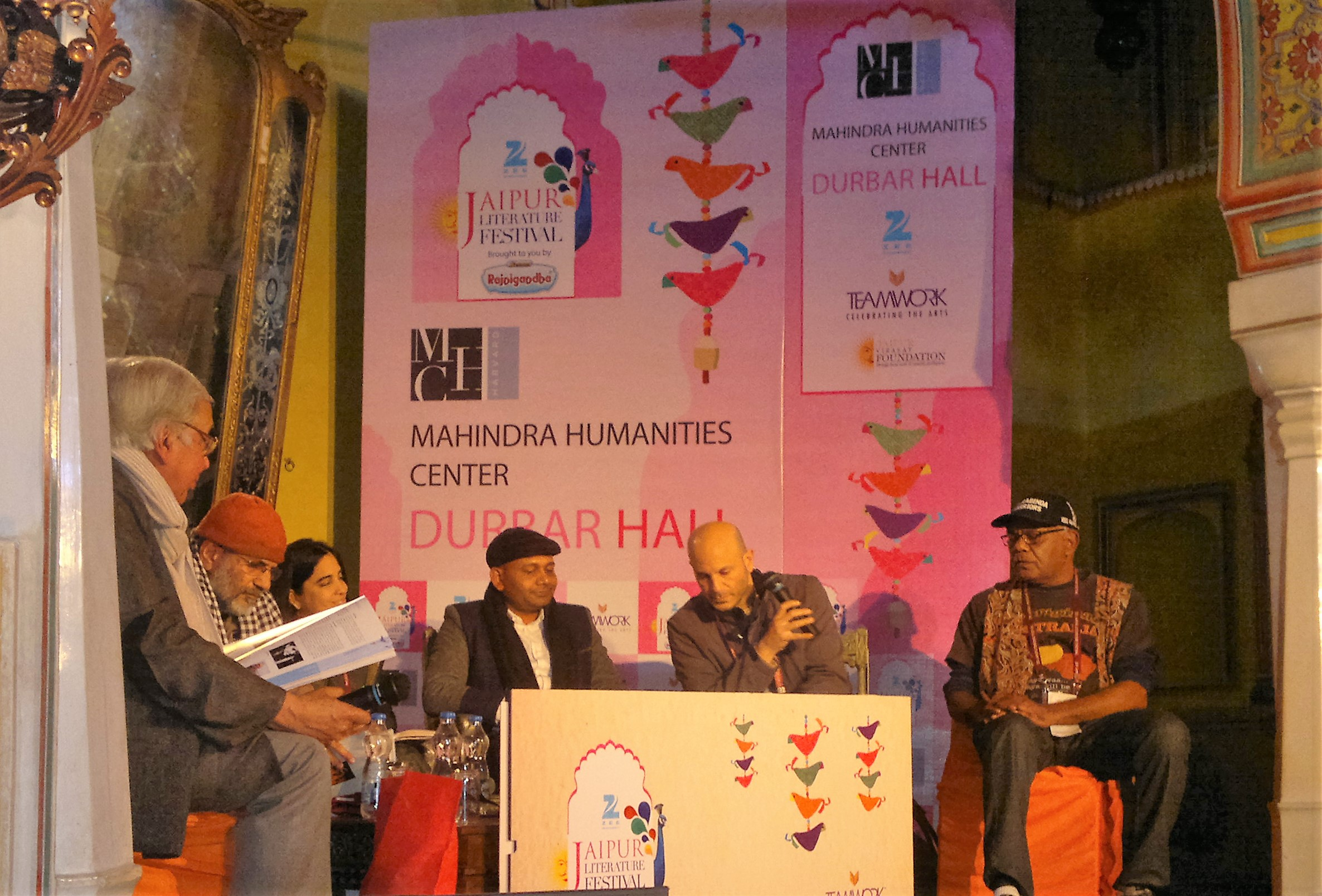 Poets Abhay K, Fady Joudah, Lionel Fogarty, Sadaf Saz, Arjun Deo Charan, Ashok Bajpai at a poetry session at the Jaipur Literature Festival 2015